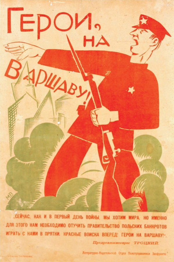 Polish-soviet propaganda poster, c.1920